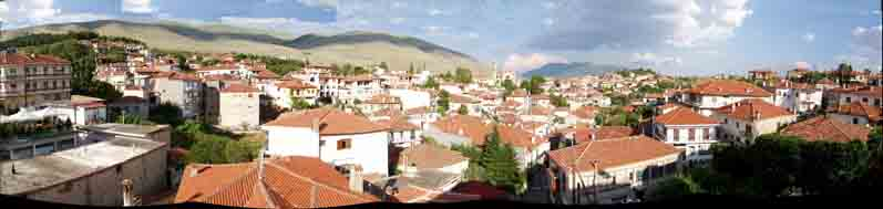 View on the city of Siatista in Kozani prefecture of Greece.